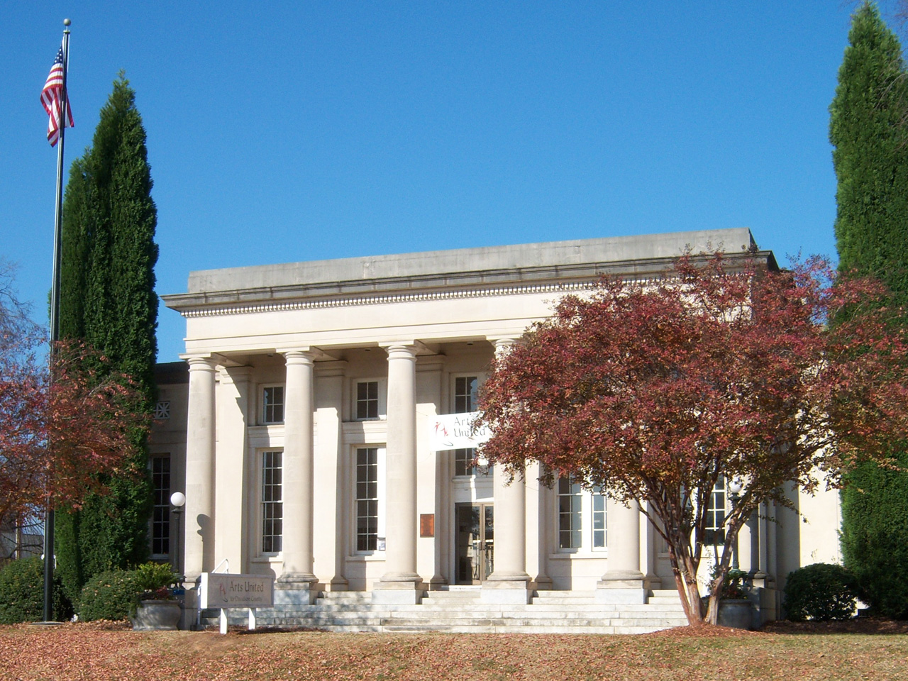 Images from uptown Lexington North Carolina, including official buildings and landmarks. Arts United of Davidson County on Main St.